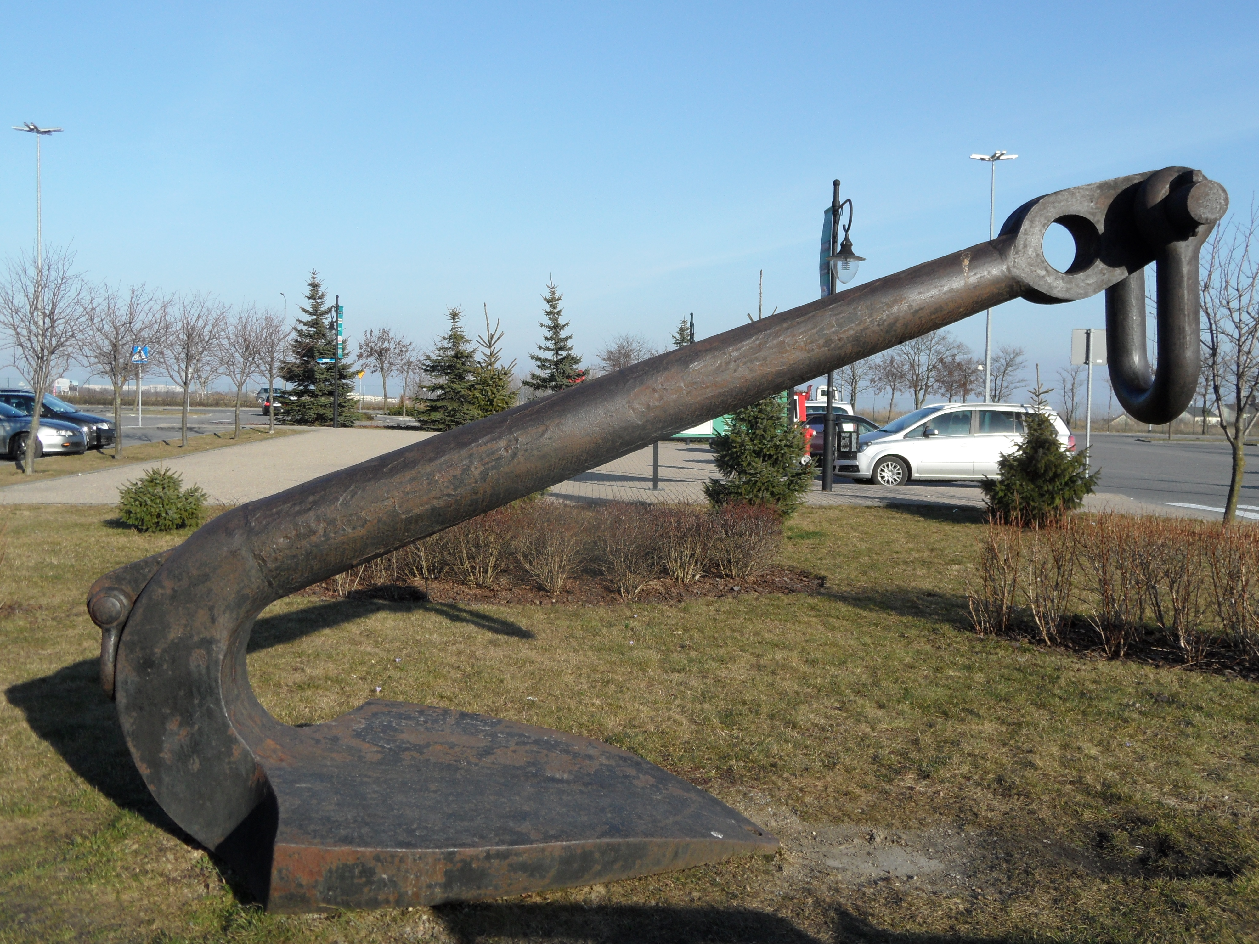 Bruce anchor in Gdansk